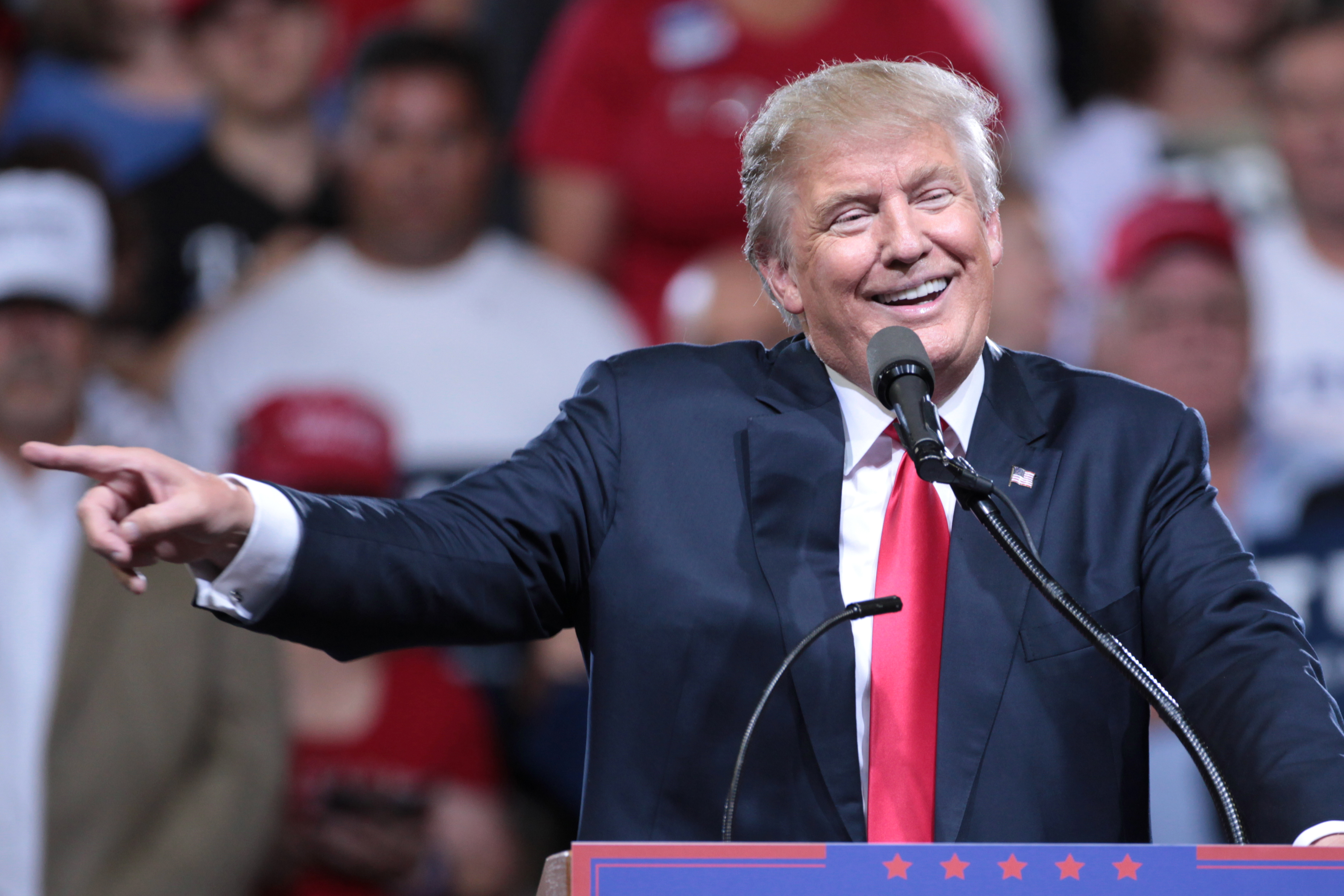 Donald Trump speaking with supporters at a campaign rally at Veterans Memorial Coliseum at the Arizona State Fairgrounds in Phoenix, Arizona.